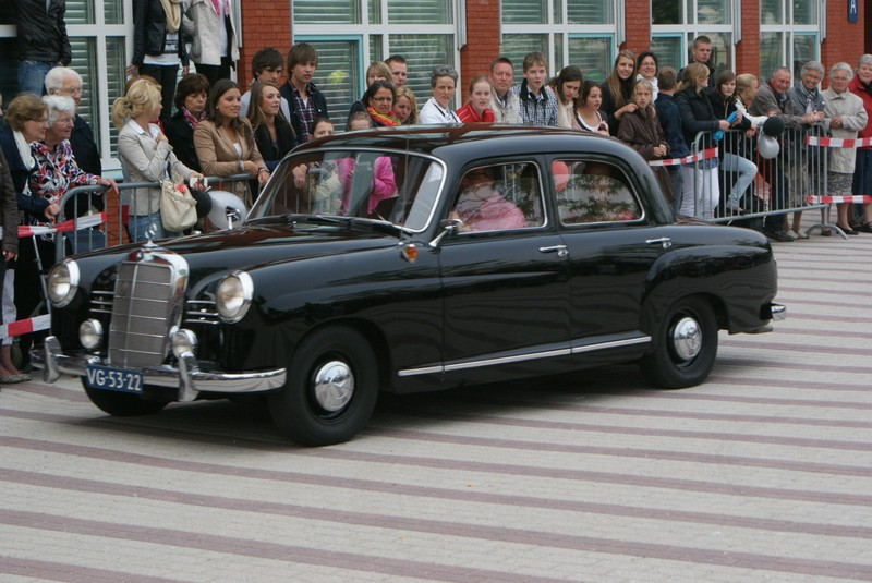 VG-53-22 Exam prom, Ichthus College